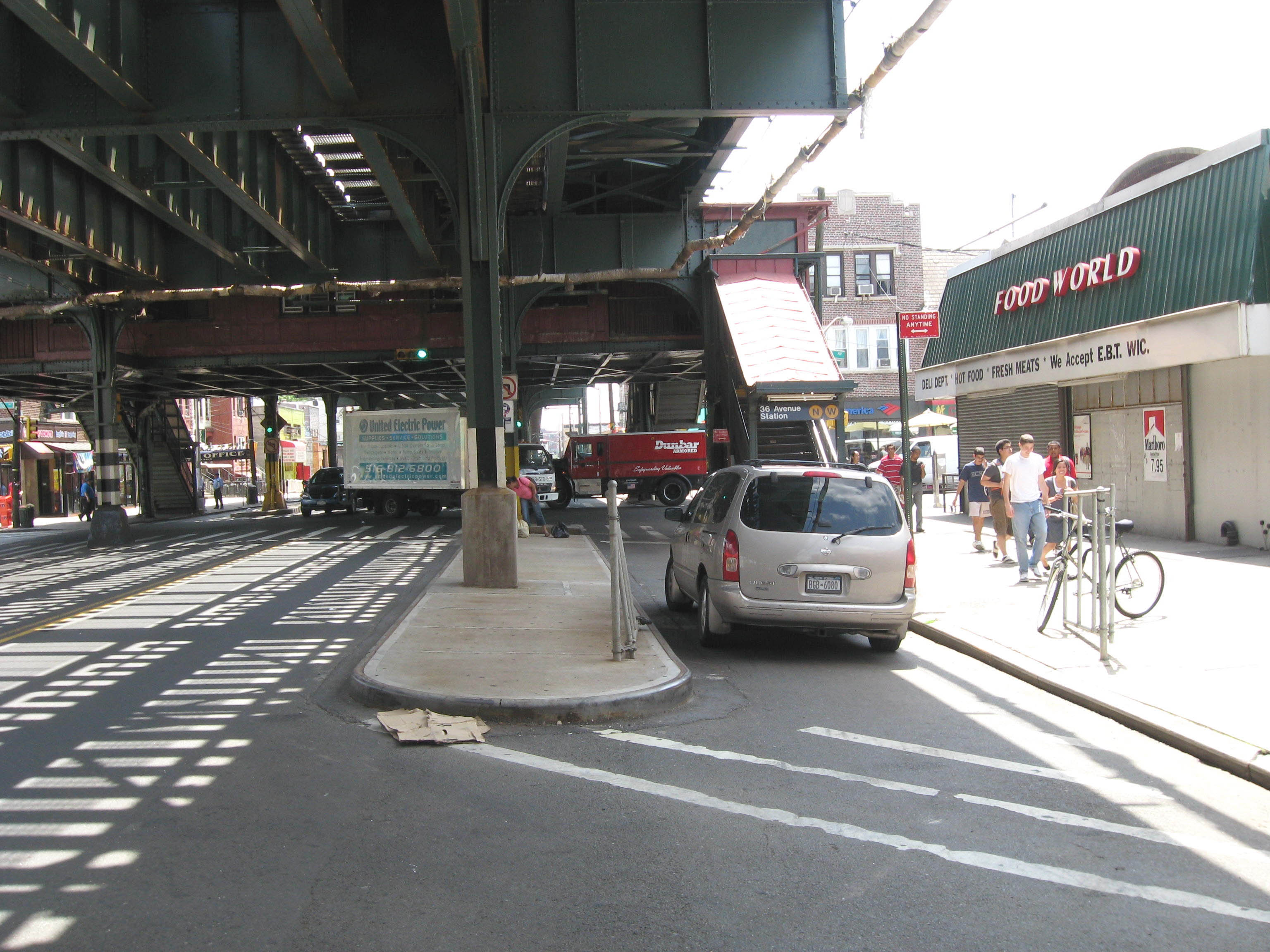 en:36th Avenue (BMT Astoria Line) western stair